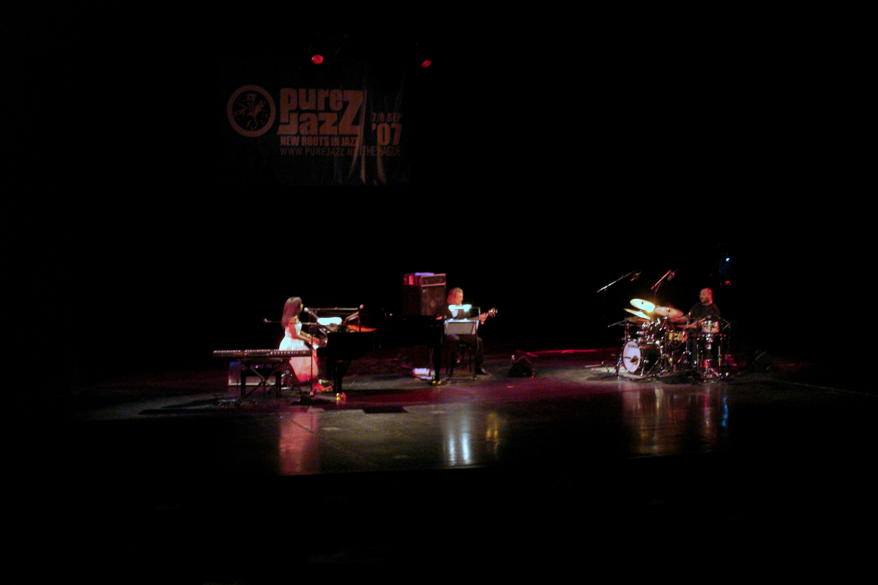 Oleta Adams at Pure Jazz 2007, The Hague